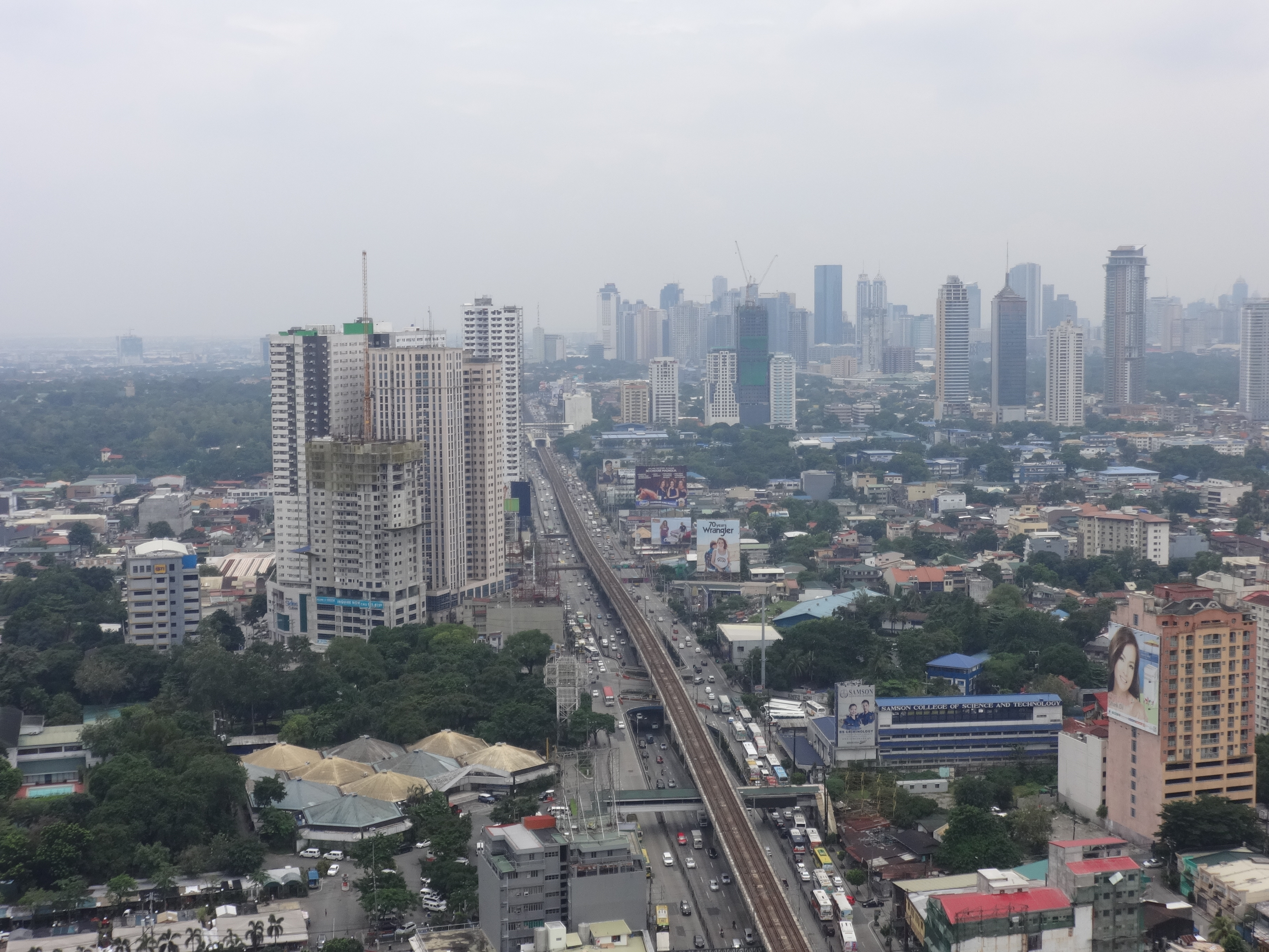 Portion of EDSA between Cubao and Greenhills in Quezon City, with Ortigas skyline and a strip of high-rise buildings along Annapolis Street